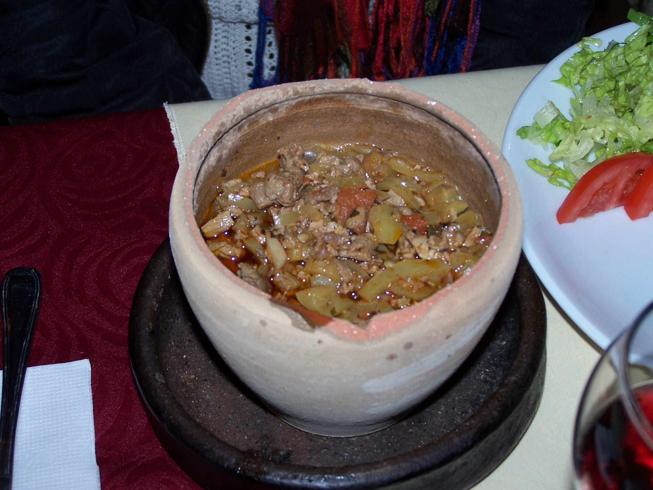 Testi Kebab